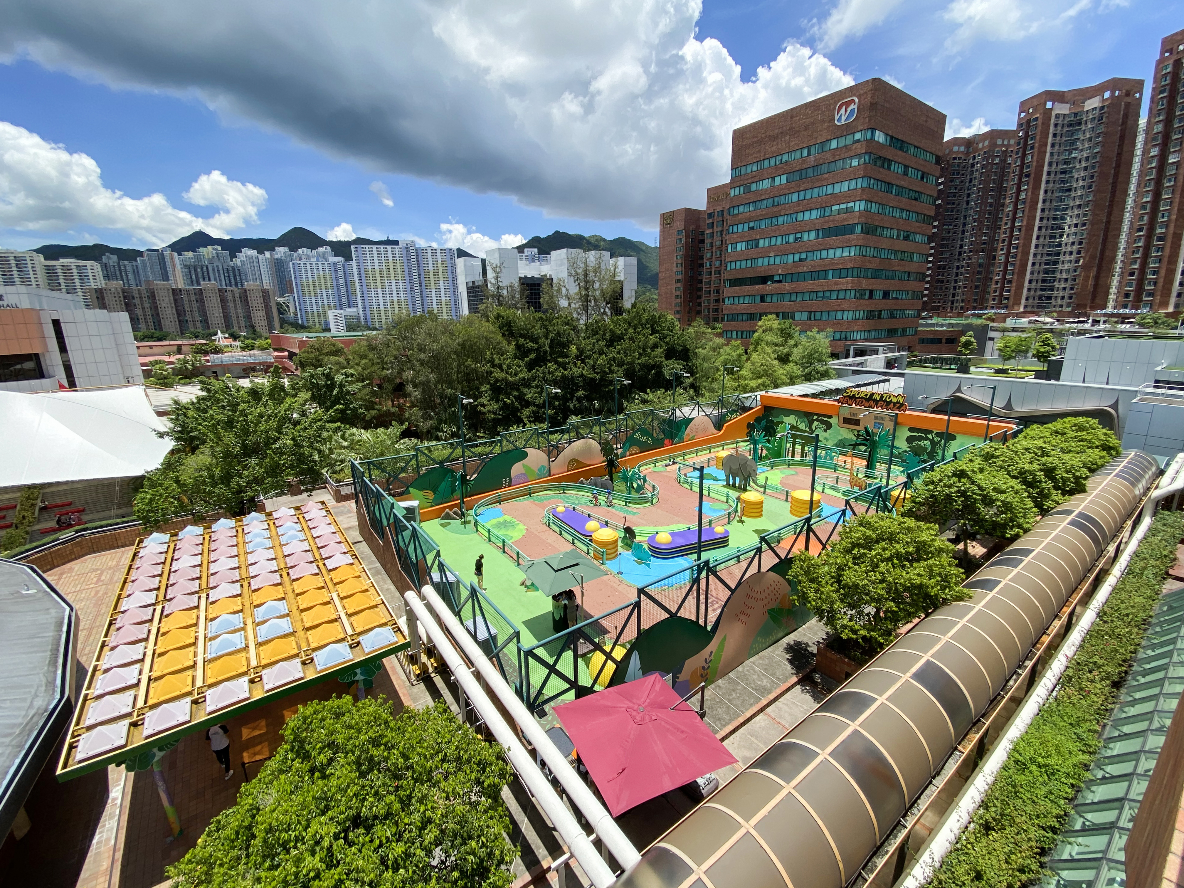 New Town Plaza Level 3 Podium Sports in Town